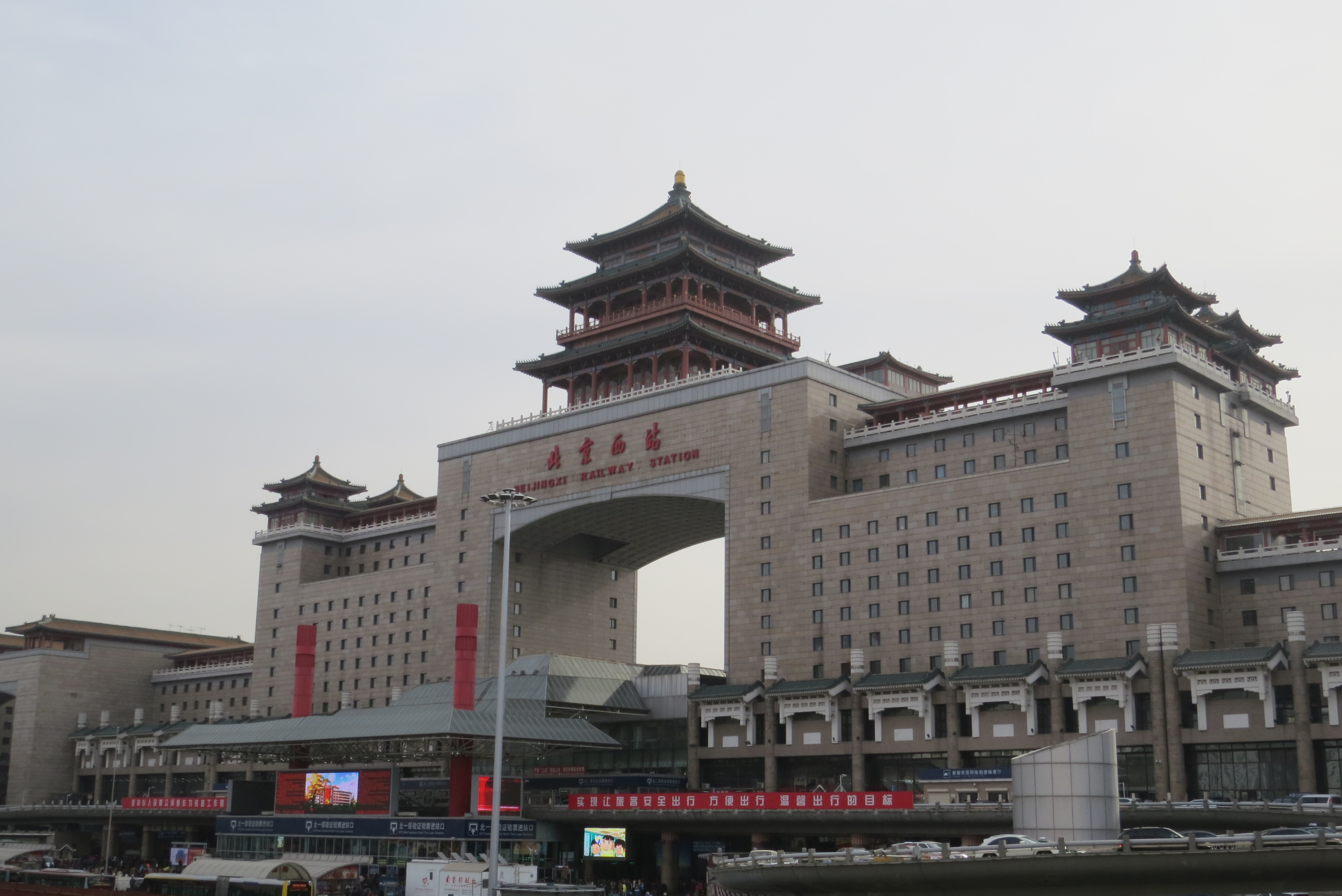 A normal photo for this station?